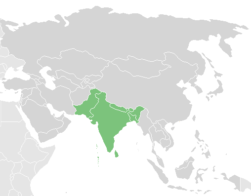 South Asian Football Federation map